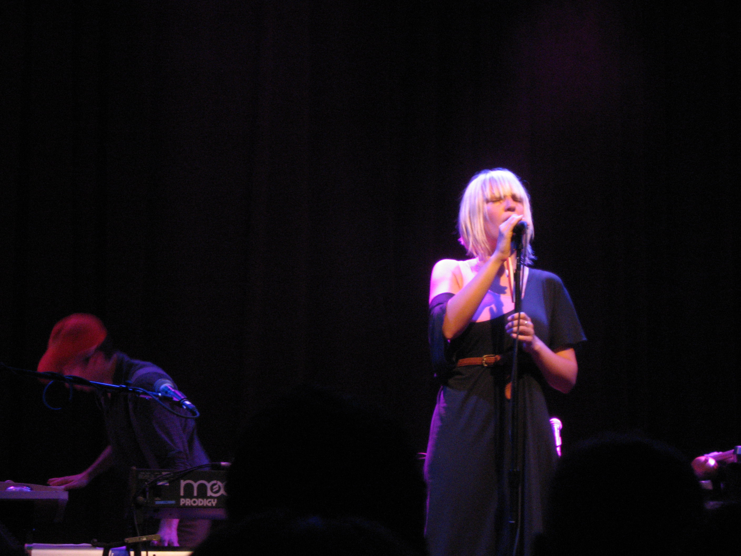 Sia Furler in concert with Zero 7, in San Francisco, CA at the Fillmore